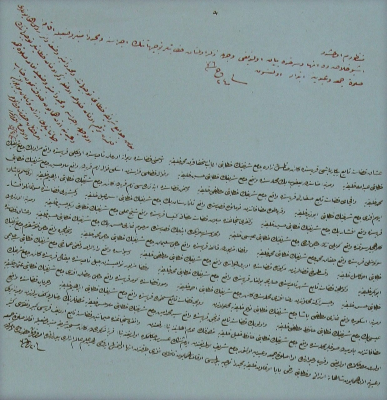 Sultan Abdulmecid's handwritten note on the notice that certain mosques need upgrading, "I have been informed. Those structures mentioned in this summary to be rebuilt expeditiously for Juma and Eid prayer.